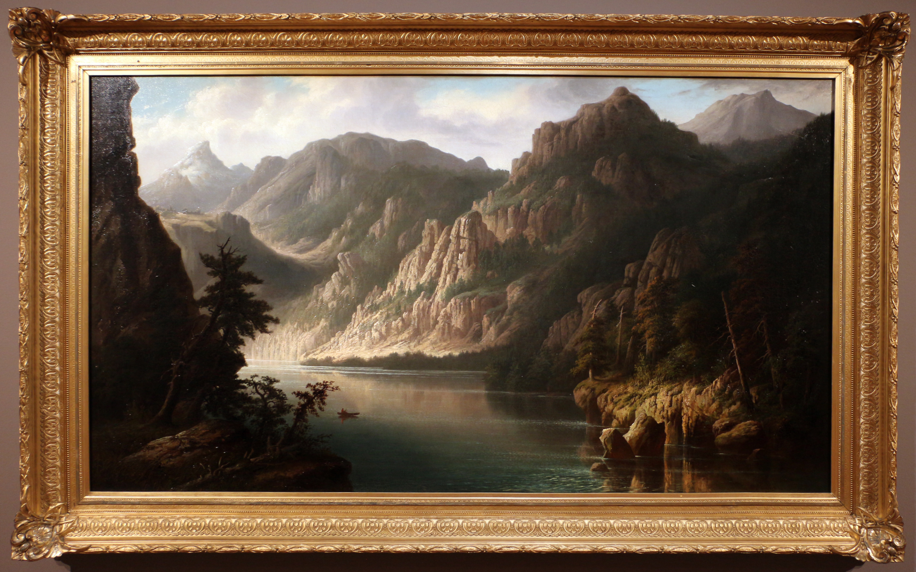 Paintings in the Milwaukee Art Museum